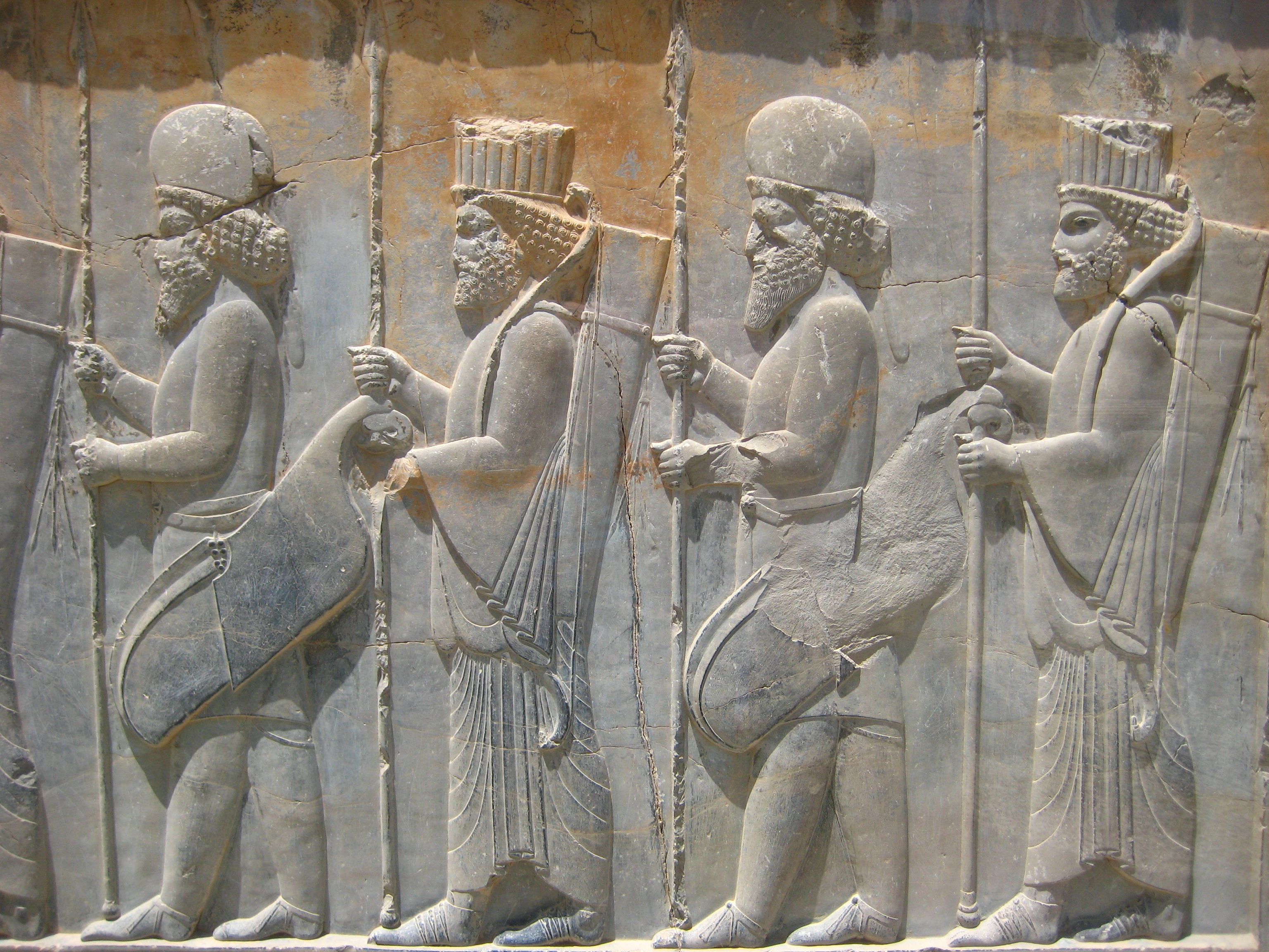 Persepolis, stairs of the Apadana, relief